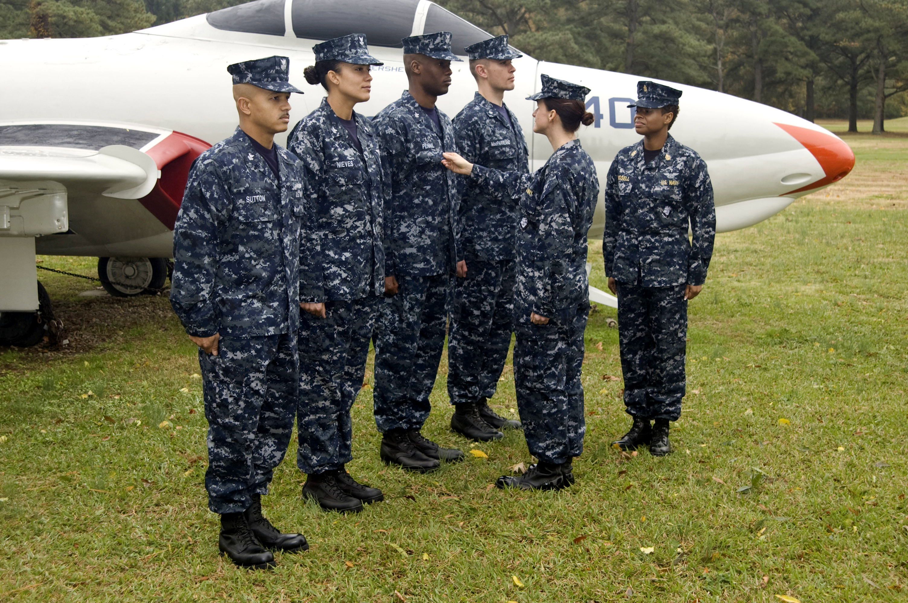 NORFOLK, Va. Sailors wear the Navy working uniform (NWU) at Naval Air Station Oceana. The NWU is intended for year-round wear and will be the standard working uniform ashore by October 2010. The NWU will replace working utilities, tropical working uniforms, wash khakis, winter working blue, aviation working green, and non-tactical/environmental usage of camouflage utility uniforms. Unless otherwise prescribed by the regional commander, the NWU is authorized to be worn at all facilities on base.